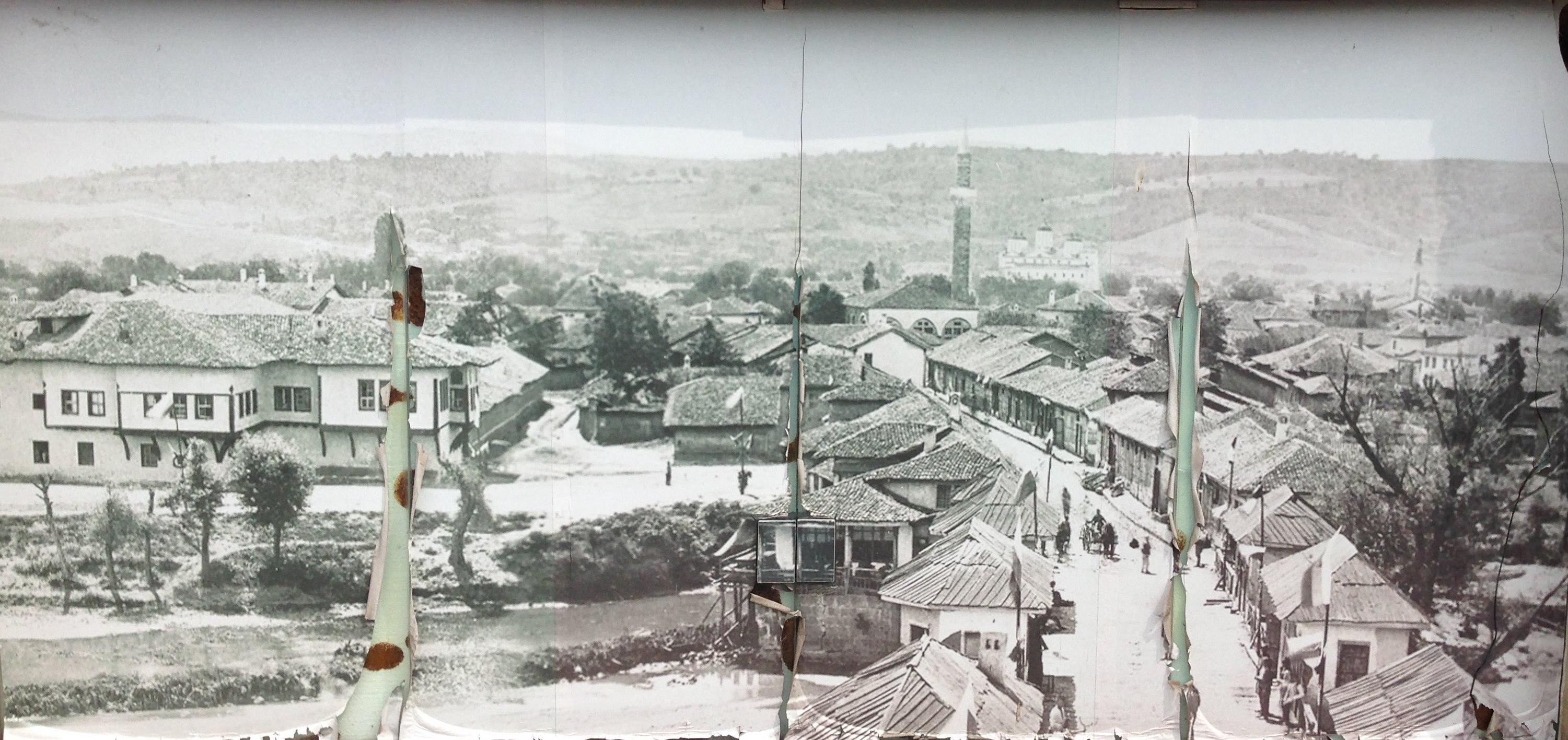 Mehmed Pasha Bridge in Niš, Serbia